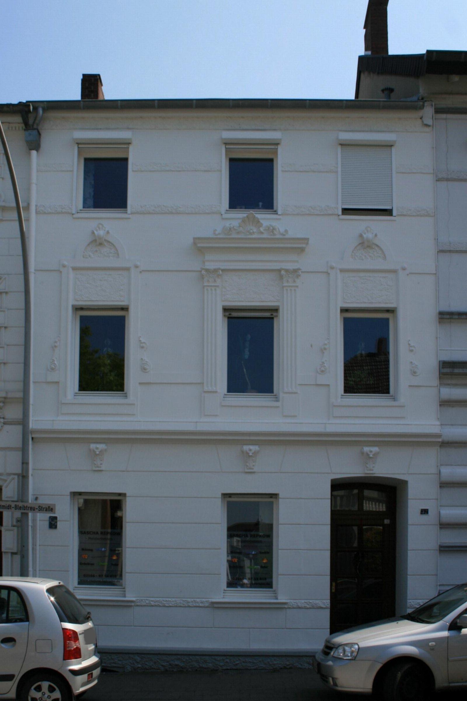 Cultural heritage monument No. Sch 019 in Mönchengladbach